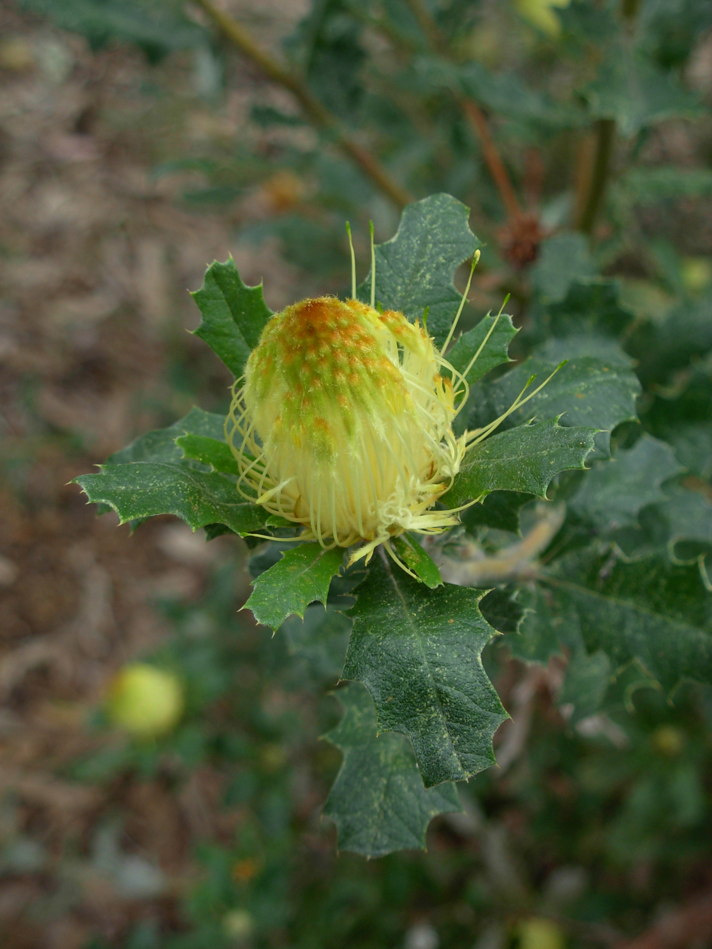 Inflorescence of Banksia undata (Urchin Dryandra)